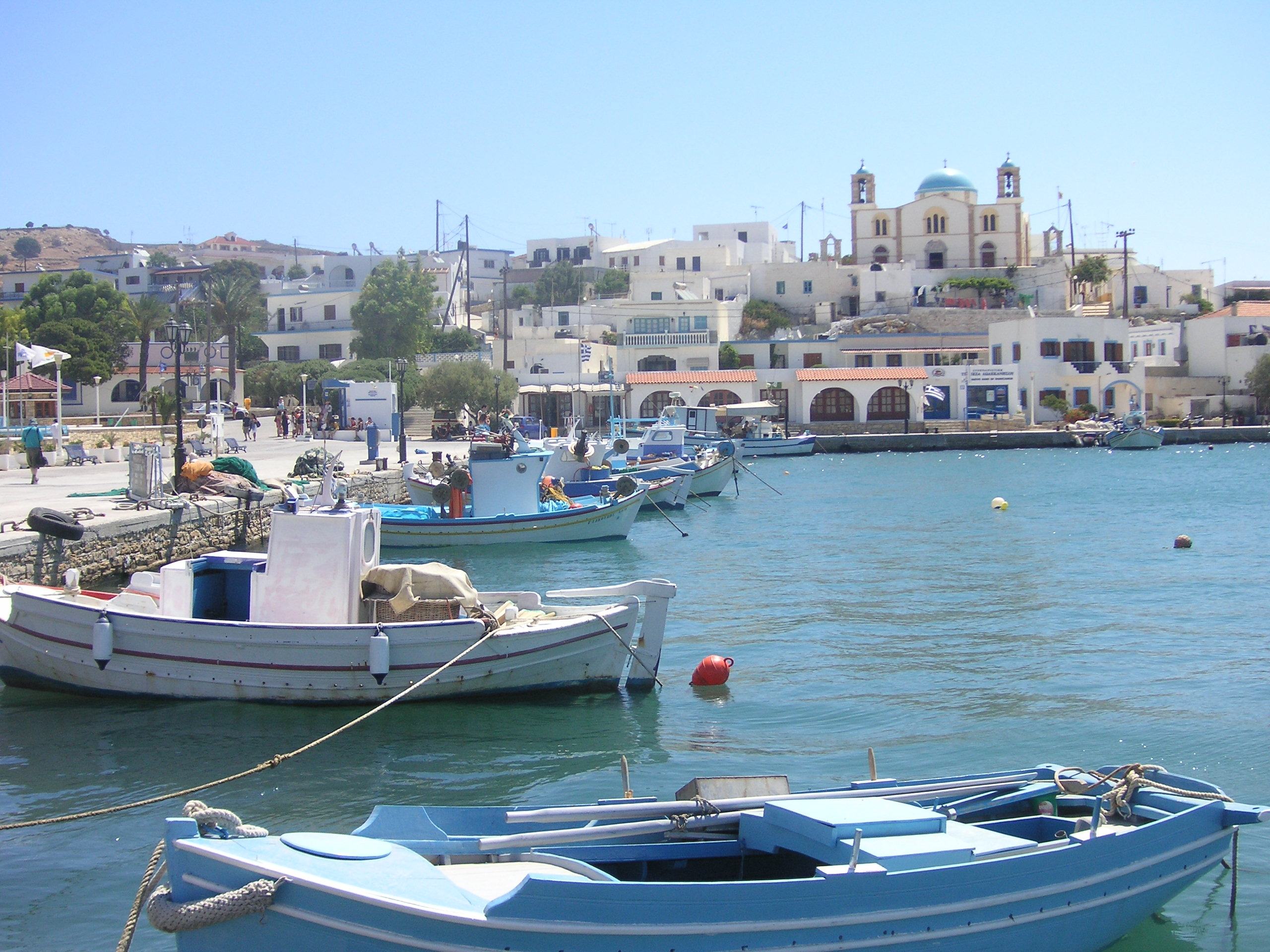 The island of Lipsi, Greece, viewed from the harbour. Photo by KF, July 2006.